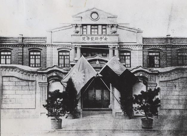 Zhili Women's Normal College